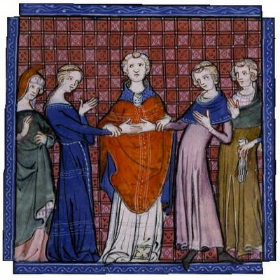 The betrothal of Alphonso of Castile and Eleanor Plantagenet